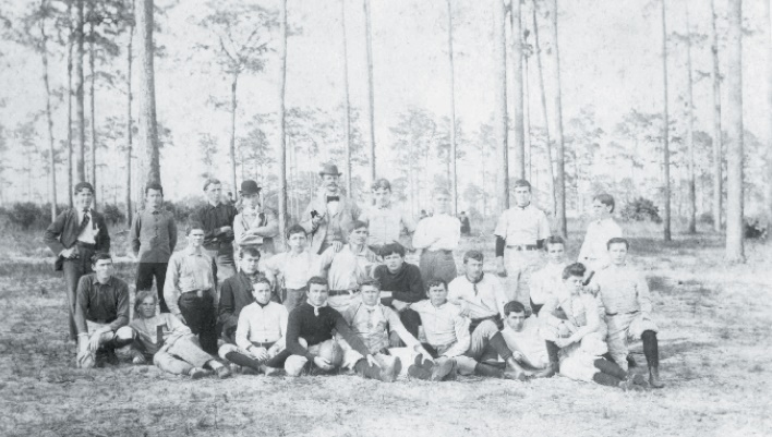 The intramural Forbes football team which played Stetson in first football game in Florida. Coach C. B. Rosa is in back left.